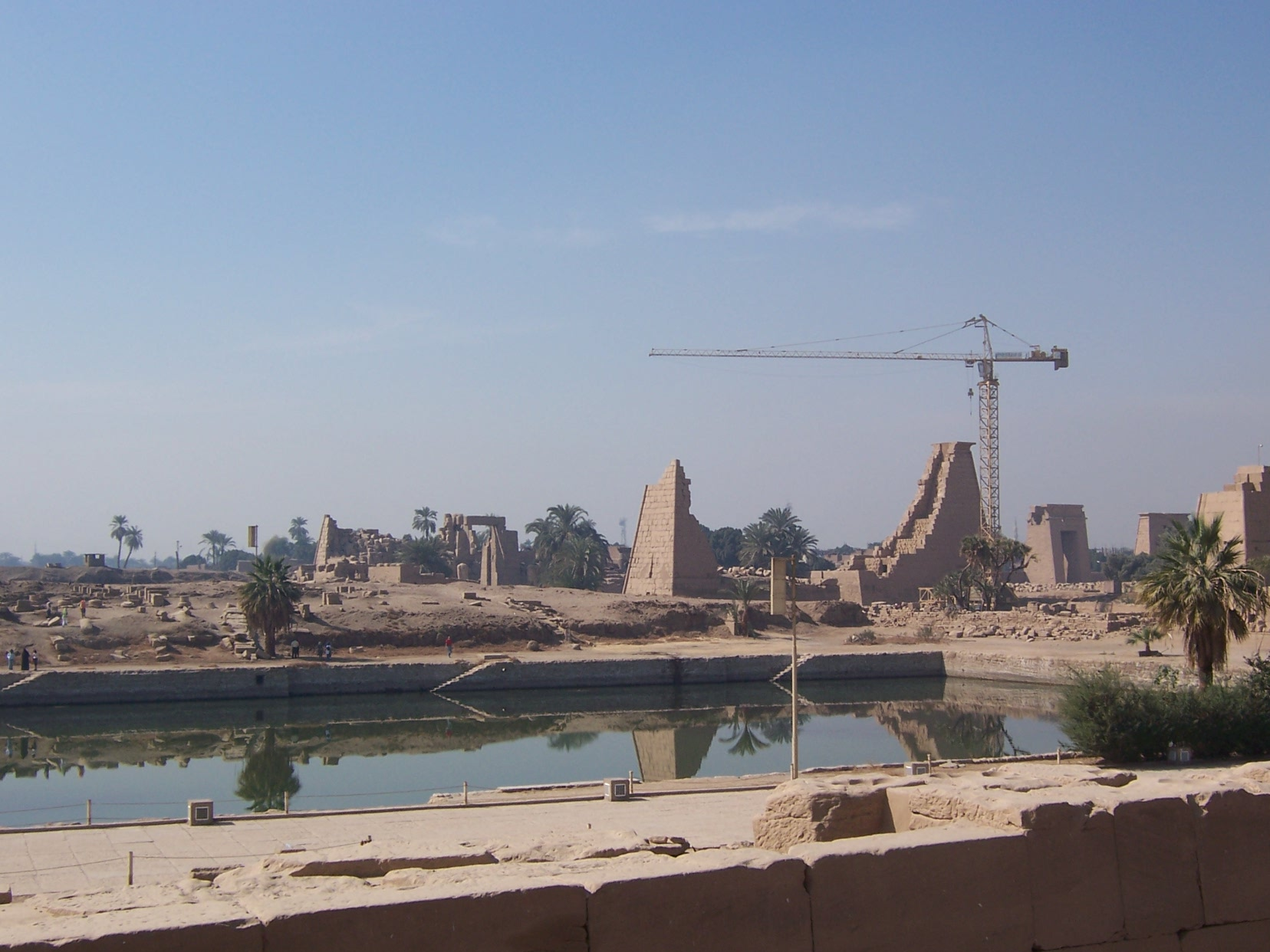 Karnak Temple Complex at Luxor, Egypt